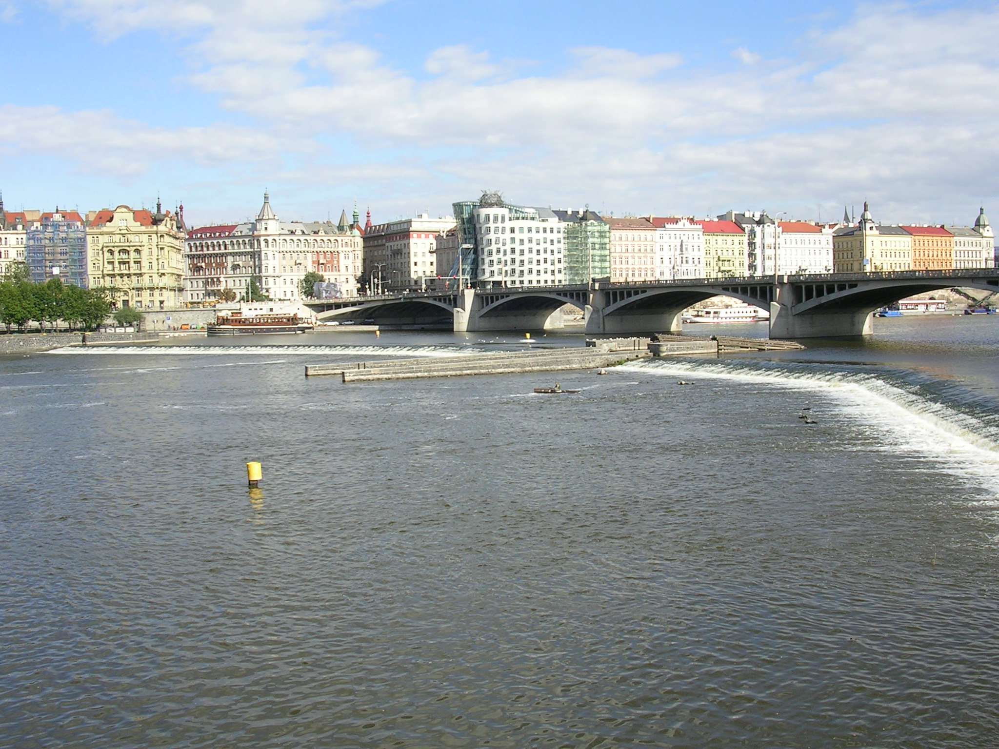 Prague, the Czech Republic.